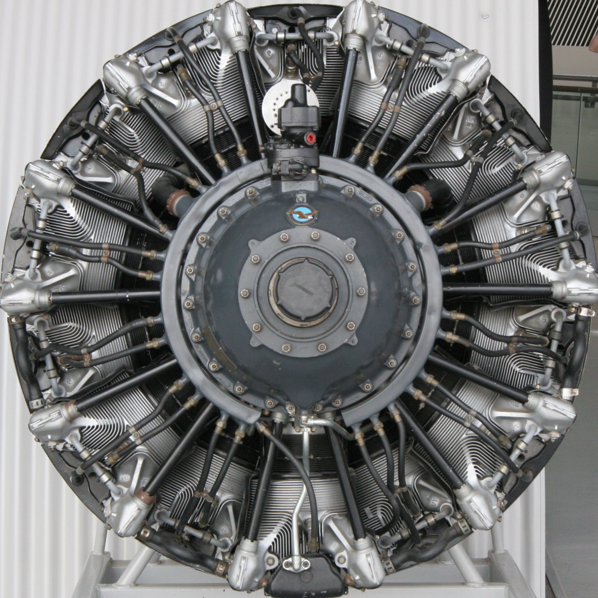 Pratt & Whitney_R-1830 Twin Wasp radial aircraft engine, Duxford Imperial War Museum.